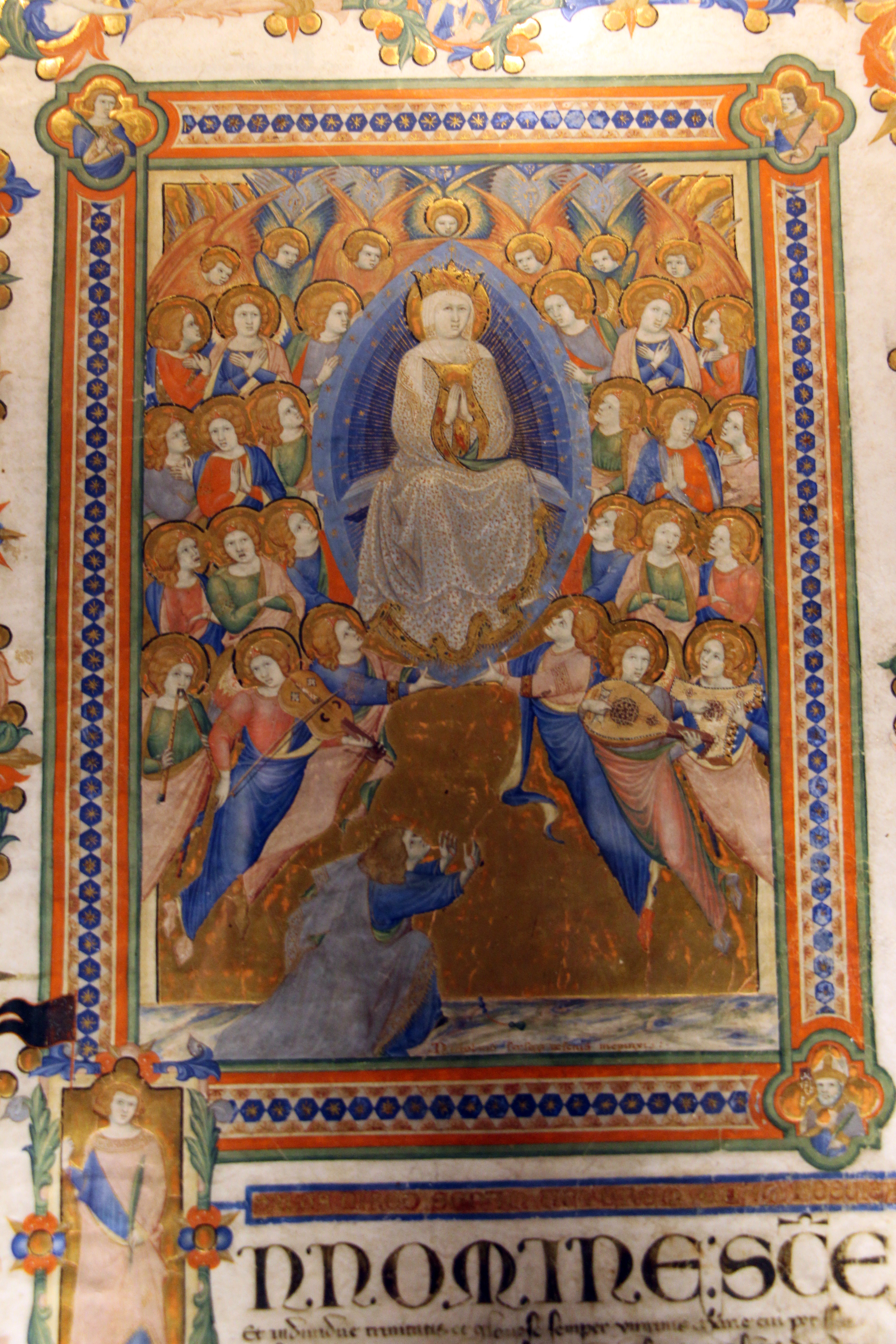 Archivio di Stato (Siena)